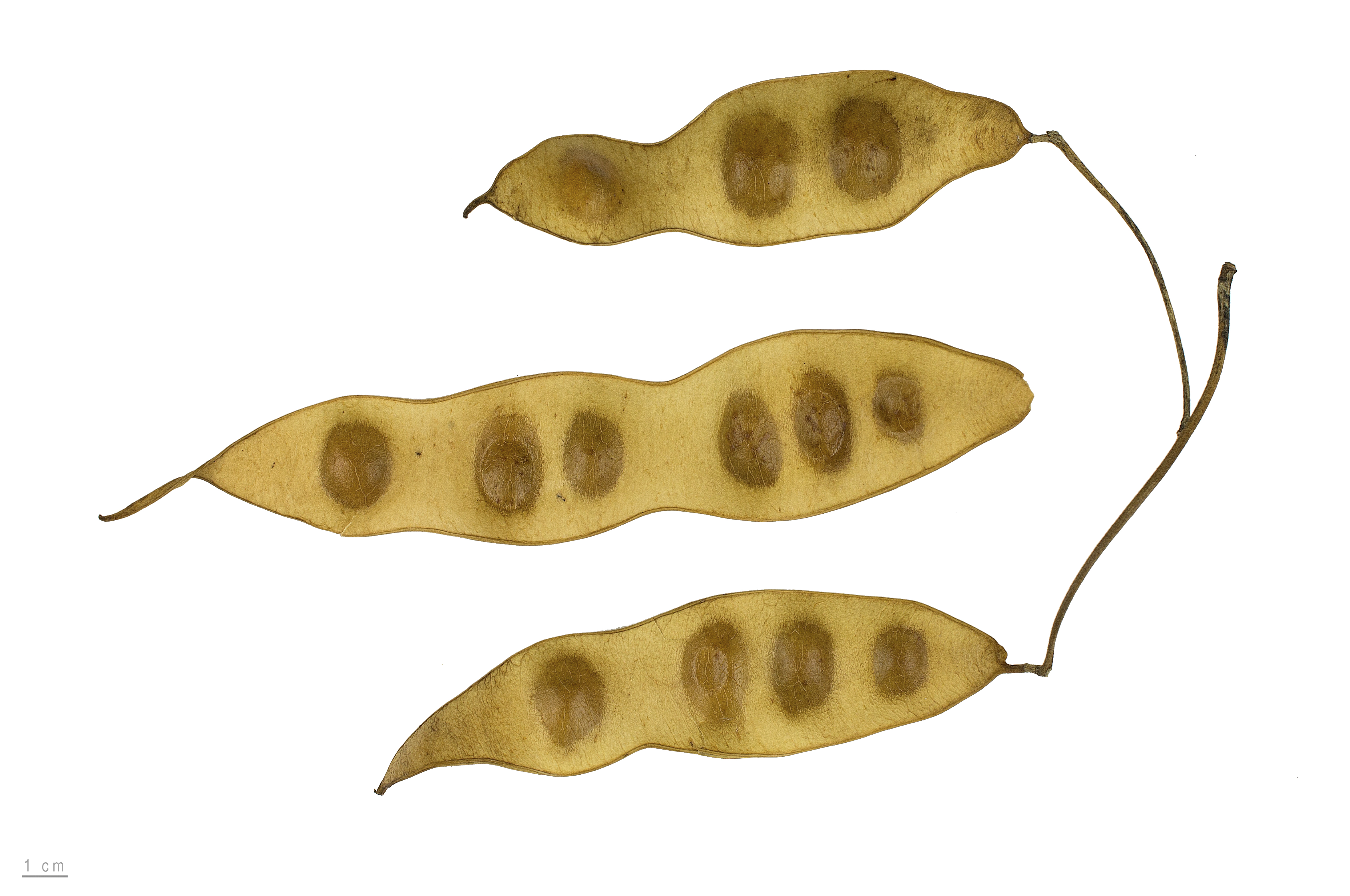 lebbek tree, fruits and seeds